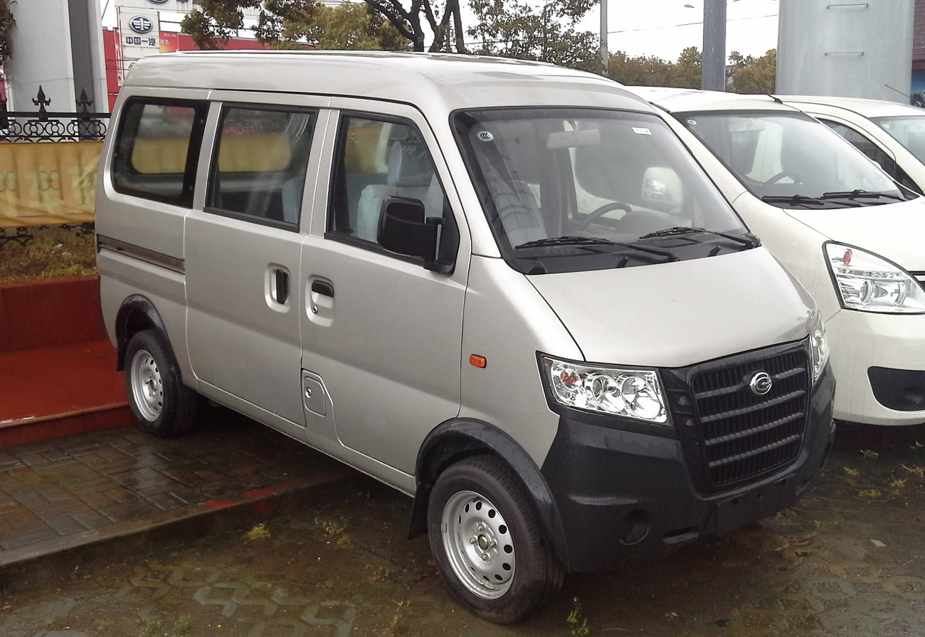 Gonow Xingwang photographed in Shanghai, China.